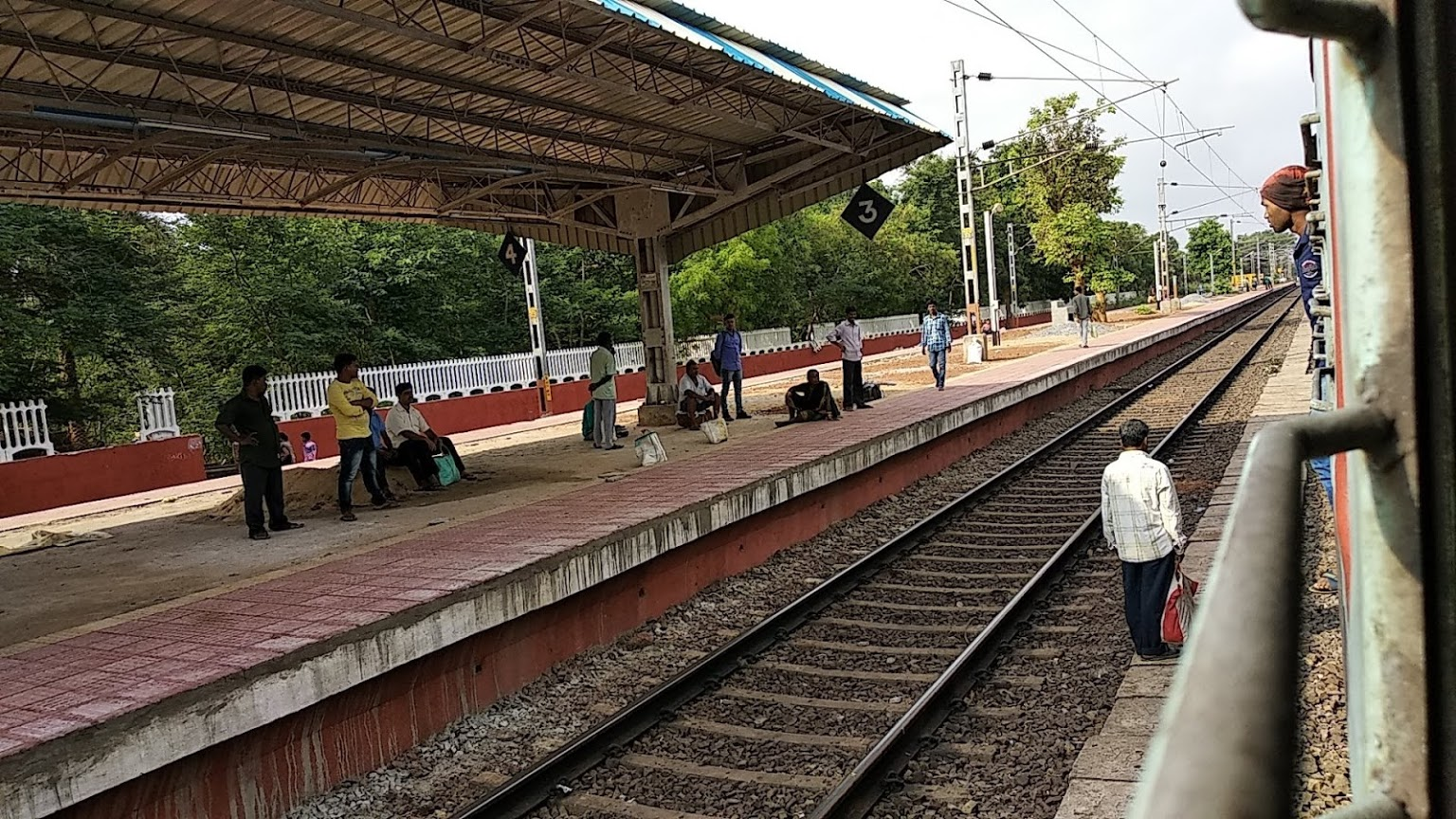 This is the Picture of Bhusandapur railway station